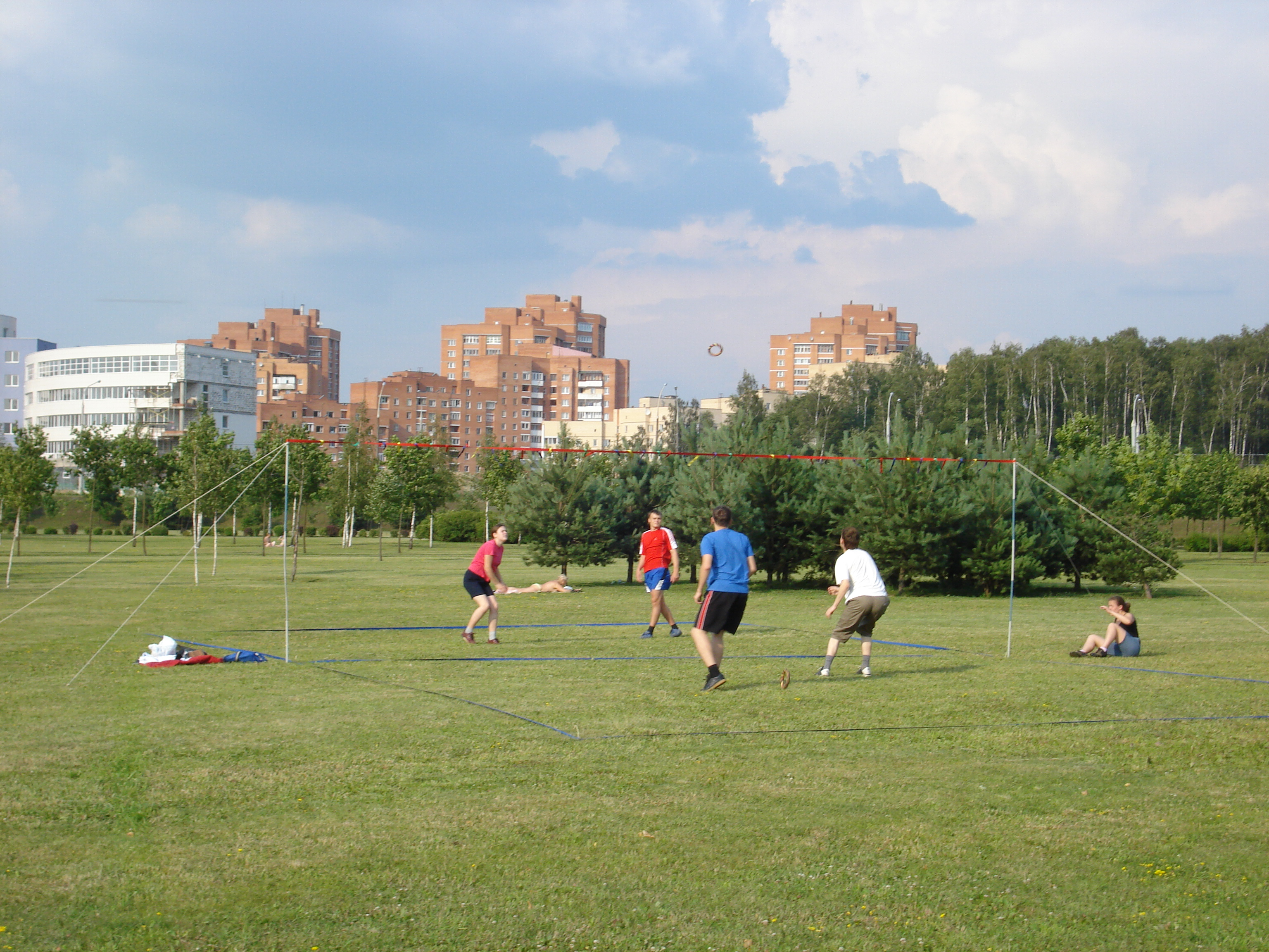 ringo match set